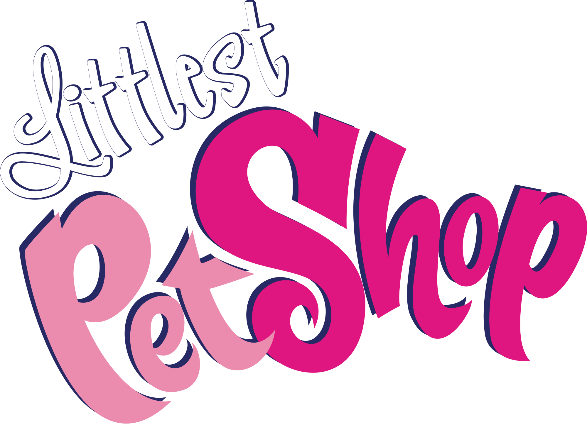 This file shows the 2012 logo of the Canadian TV series, Littlest Pet Shop.